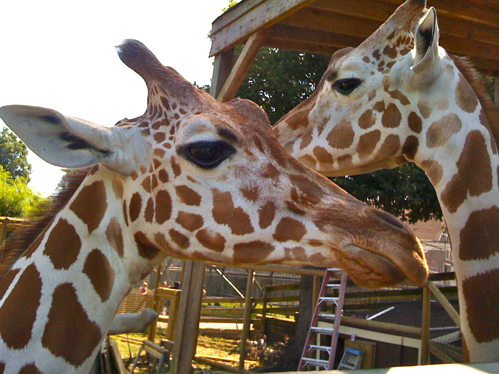 Giraffa camelopardalis in Richmond Metro Zoo